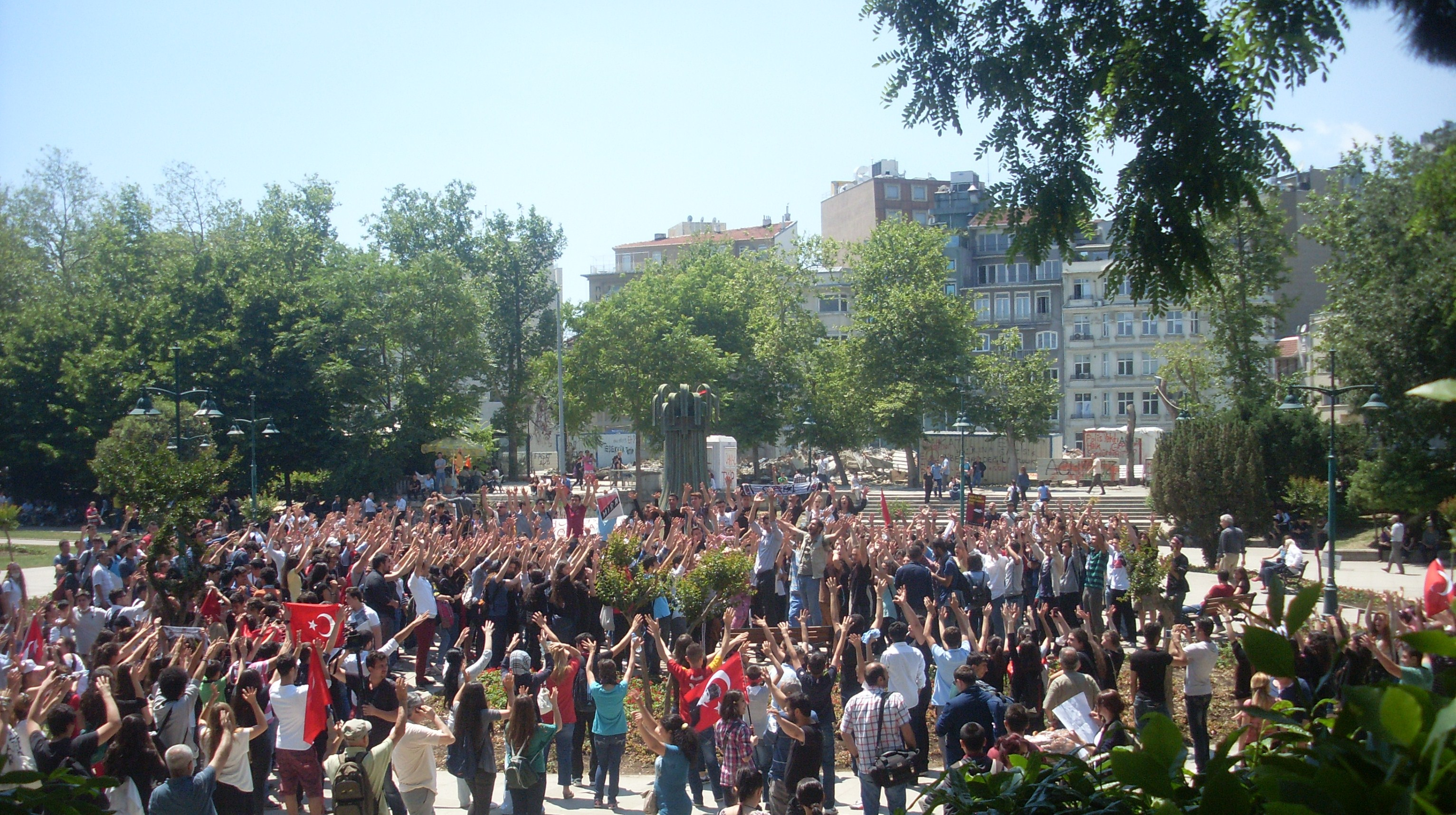 Protests at Gezi Park on 3rd June 2013